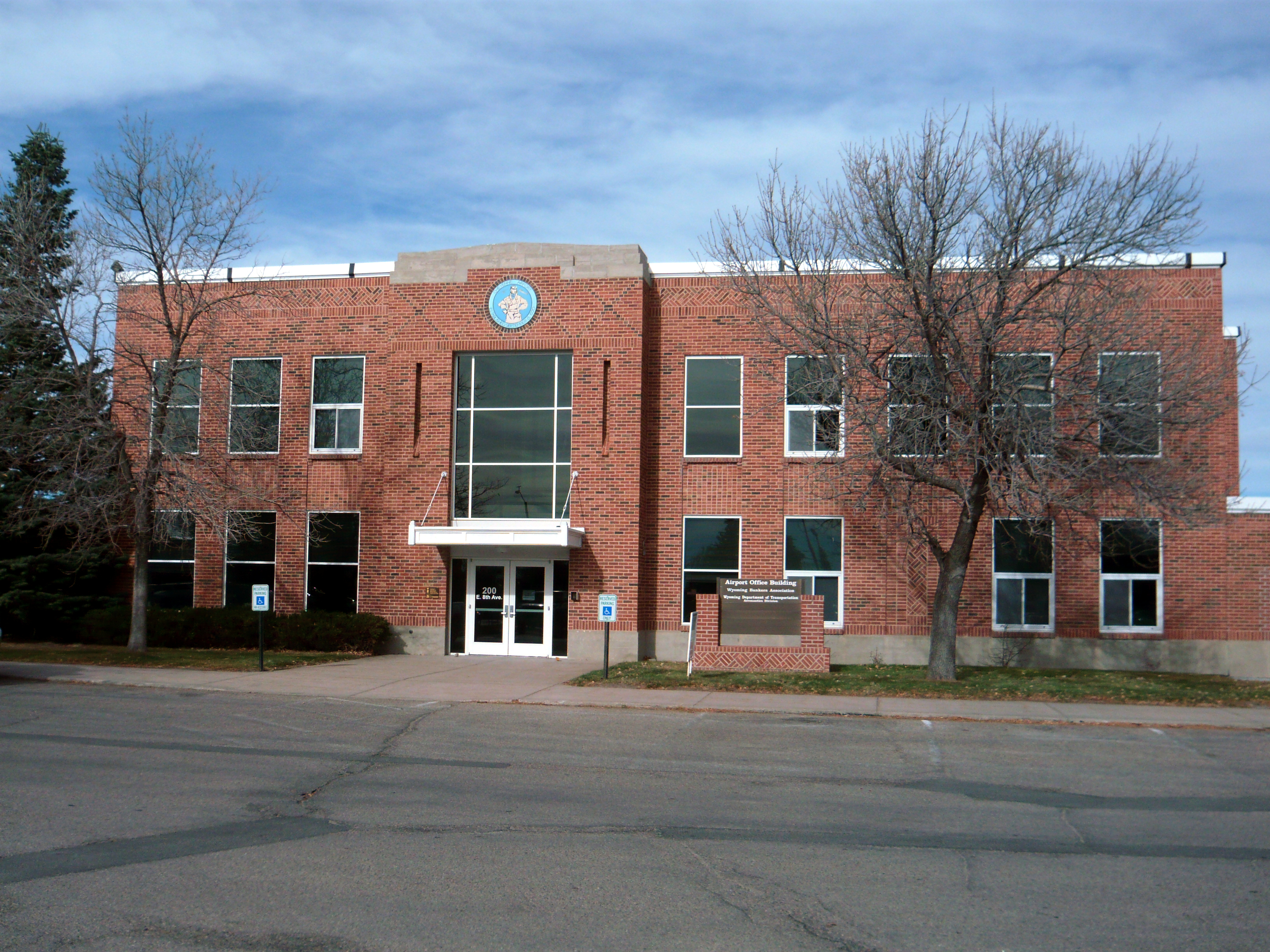 Currently named Airport Office Building, this is the former Boeing/United Airlines Terminal Building or Old Airport Terminal Building at Cheyenne Regional Airport which is on the National Register of Historic Places.